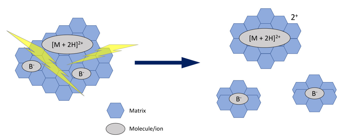 Schematic representation of one of the processes in the “lucky survivor” model of matrix-assisted laser desorption ionization for mass spectrometry chemical analysis. Matrix molecules are represented by the hexagons and component ions by ovals. Highly charged clusters are formed by the break-up of larger clusters. The diagram is based on Figure 2 of Karas, Glückmann, and Schäfer, “Ionization in matrix-assisted laser desorption/ionization: singly charged molecular ions are the lucky survivors.” J. Mass Spectrom. 35, 1–12 (2000)